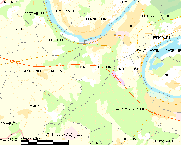 Map of French municipality Bonnières-sur-Seine